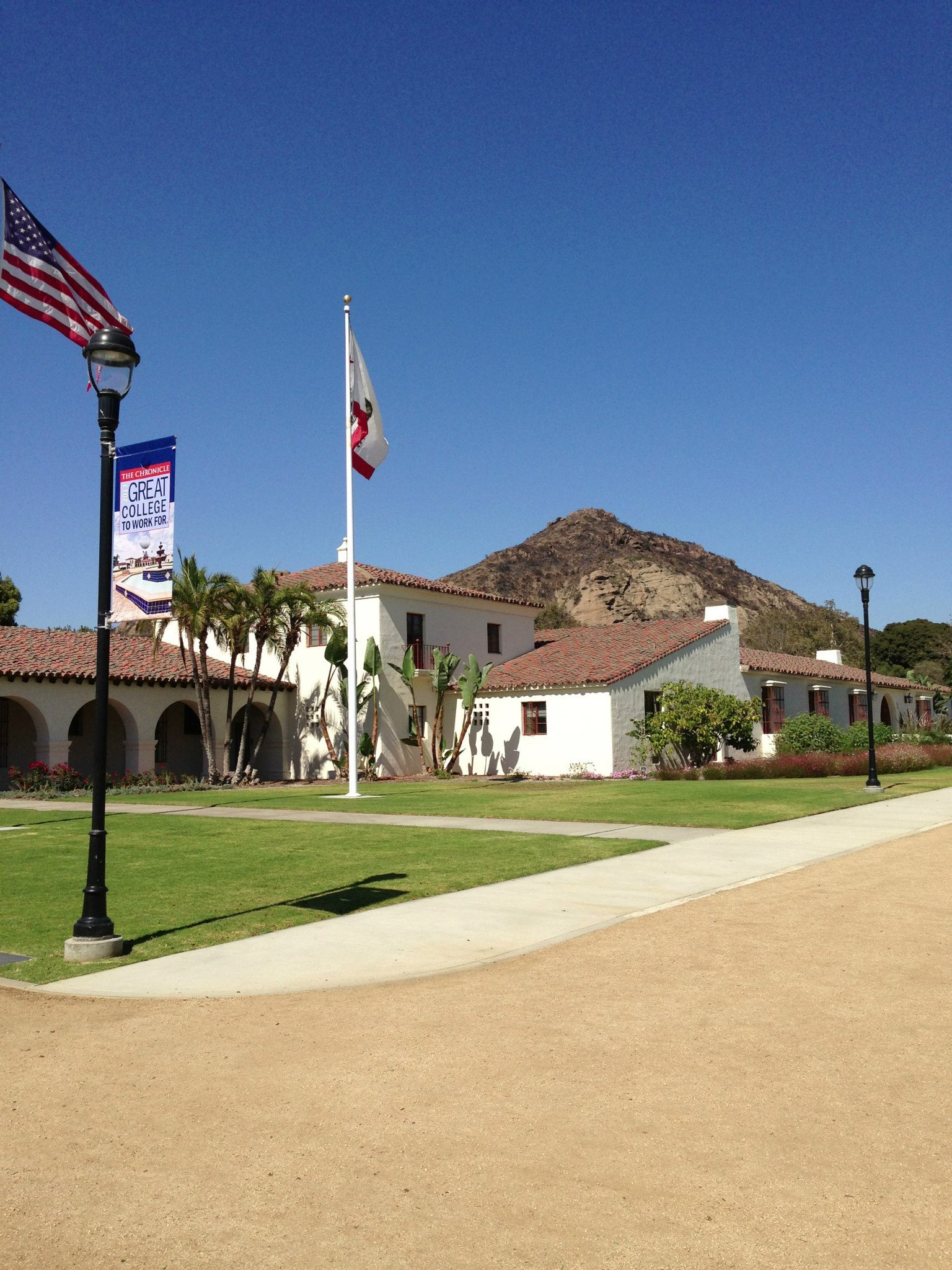 University Hall at CSUCI